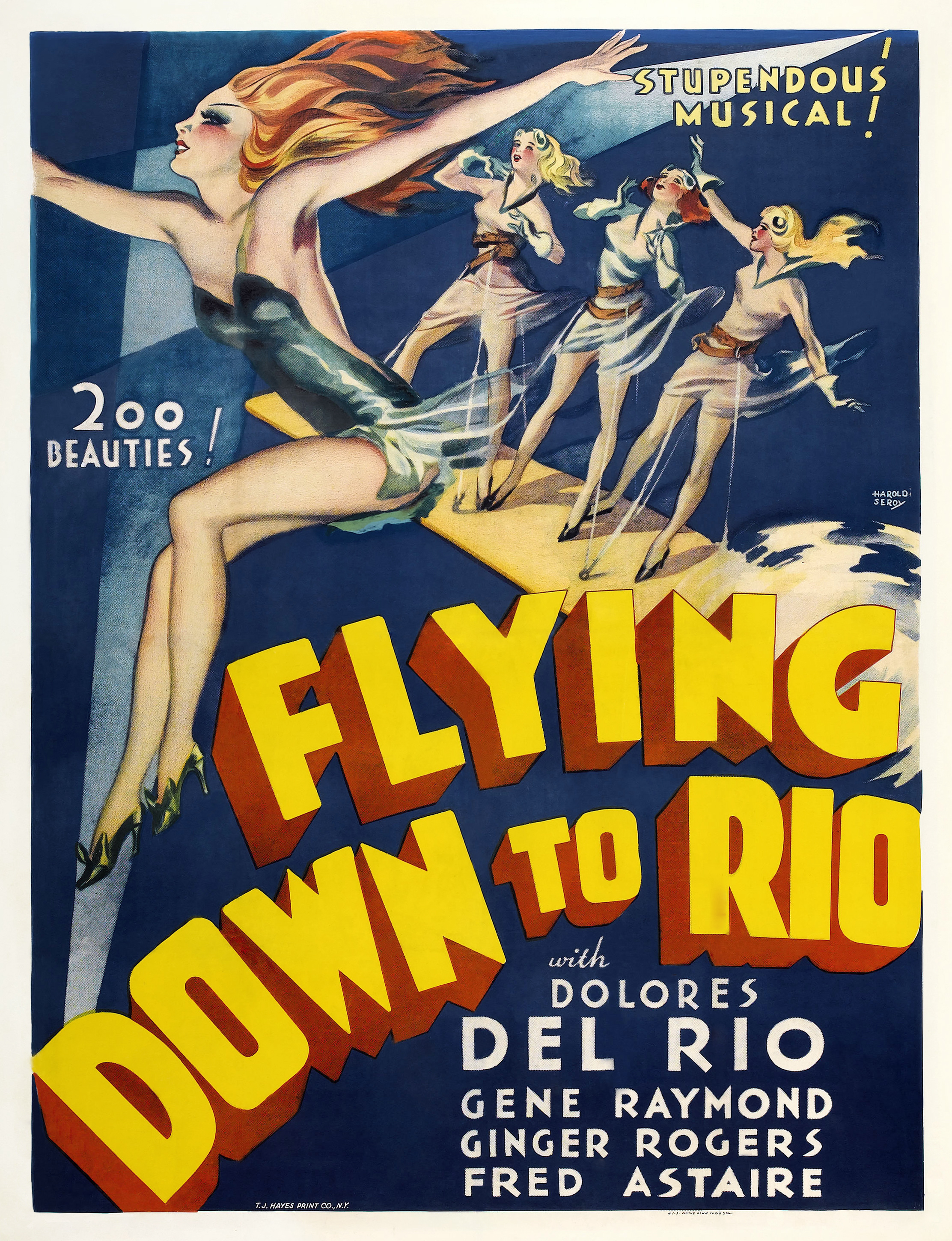 Film poster for Flying Down to Rio, the first film to pair Fred Astaire and Ginger Rogers.